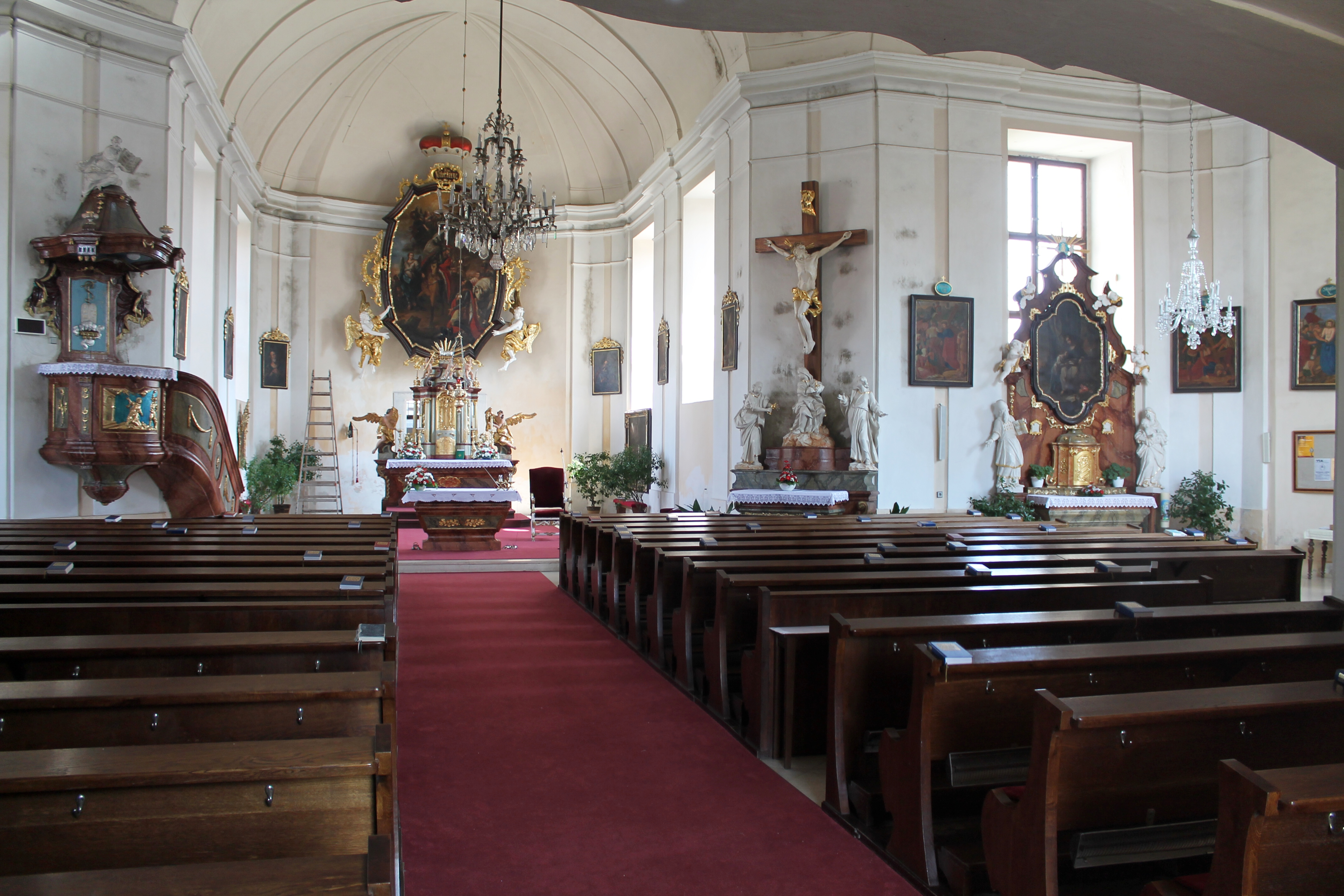 Church of St. Wenceslaus, Zvole, Žďár nad Sázavou District, Czech Republic - Google Maps - Google Earth